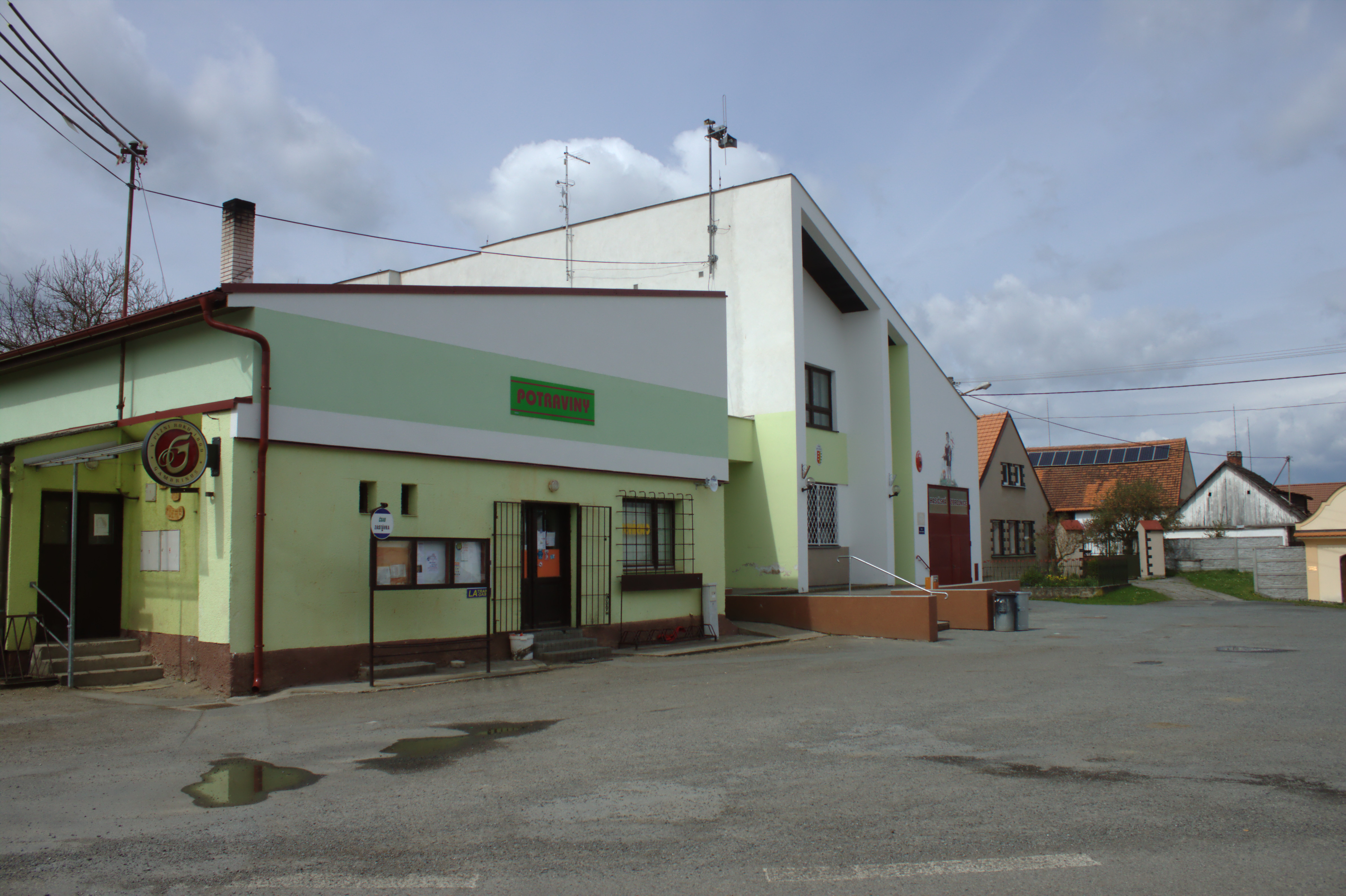 Main common in the village of Horšice, Plzeň Region, CZ